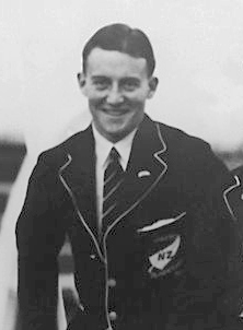 New Zealand athletes on board Wanganella on their way to the Berlin Olympics, 14th June 1936. Vernon Boot (athletics).